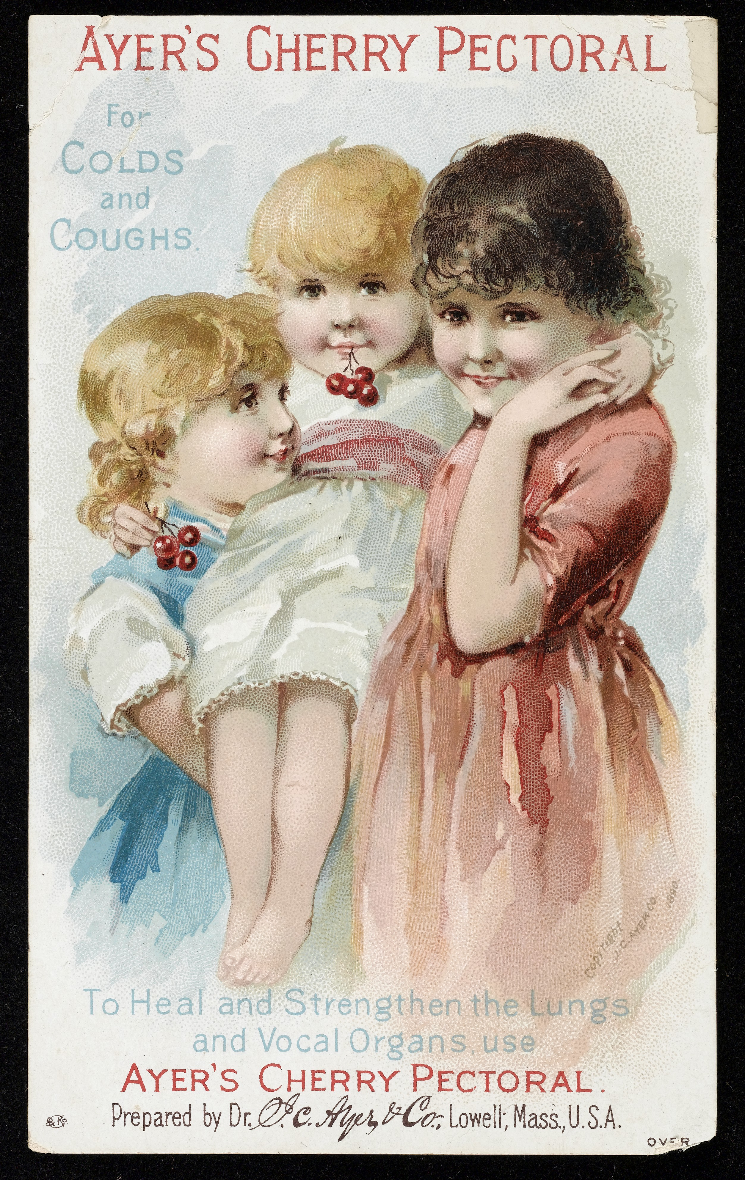 Ayers Cherry Pectoral for colds and coughs General Collections Keywords: Drug Industry; Luminal.; Farine Mexicaine.; Hexopal.; Bioferal.; Isordil.; Instras.; Franol.; Actal.; Ayer's Sarsaparilla.; Fabahistin.; Apolomine Plus.; Pharmaceutical Preparations; Elityran.; Adalin.; Clense.; Marienbad Tablets.; Stop.; Bayolin.; Lasonil.; Festan.; Devegan.; Apolomine.; Canestan.; Argyrol.; Novocain-Cobefrin.; Theominal.; Hydronal.